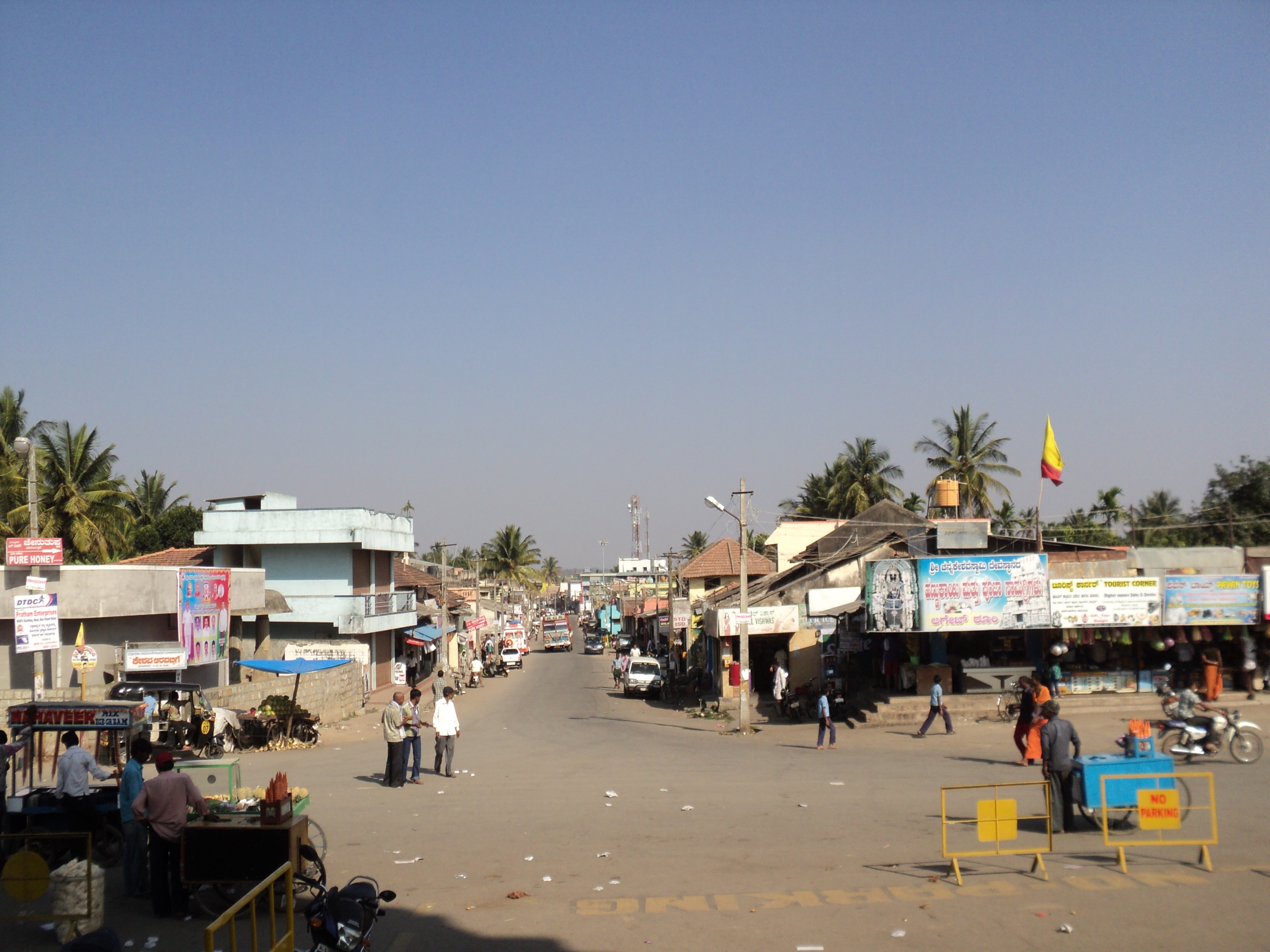 Belur Town